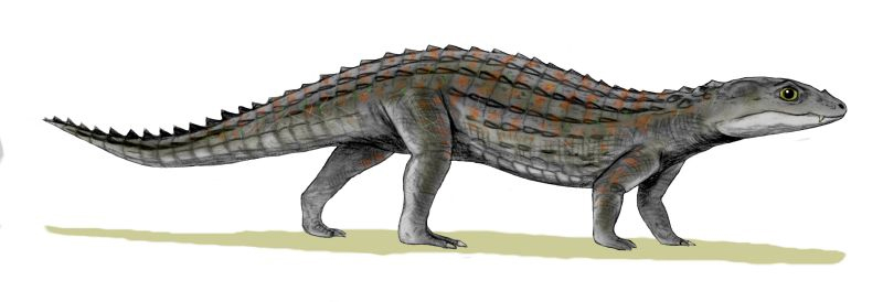 Comahuesuchus brachybuccalis, a crocodylomorph from the Late Cretaceous of Argentina, pencil drawing, digital coloring